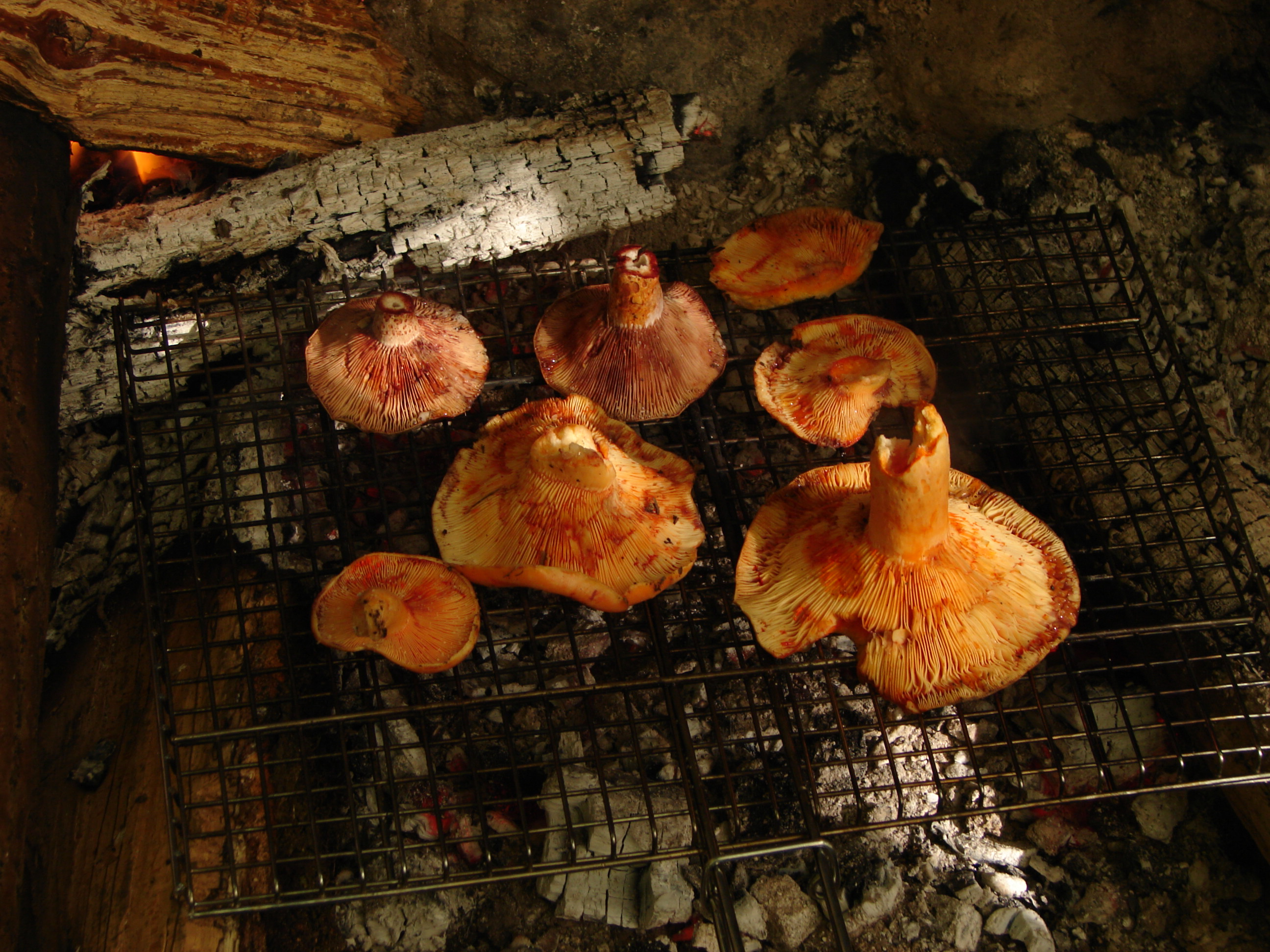 (Lactarius salmonicolor). Bolu province, Turkey.